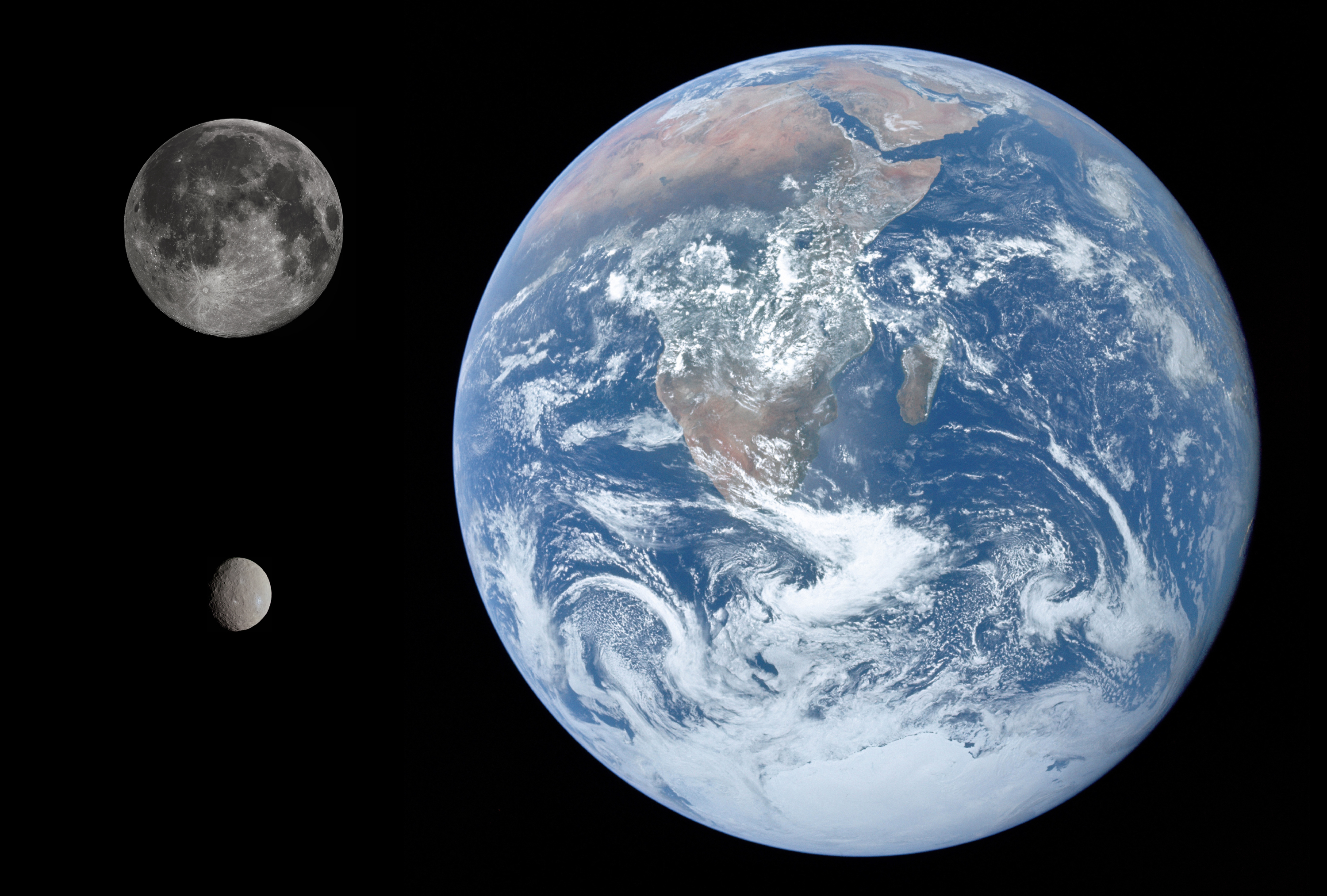 Diameter comparison of Ceres, Moon, and Earth. Scale: Approximately 29km per pixel.